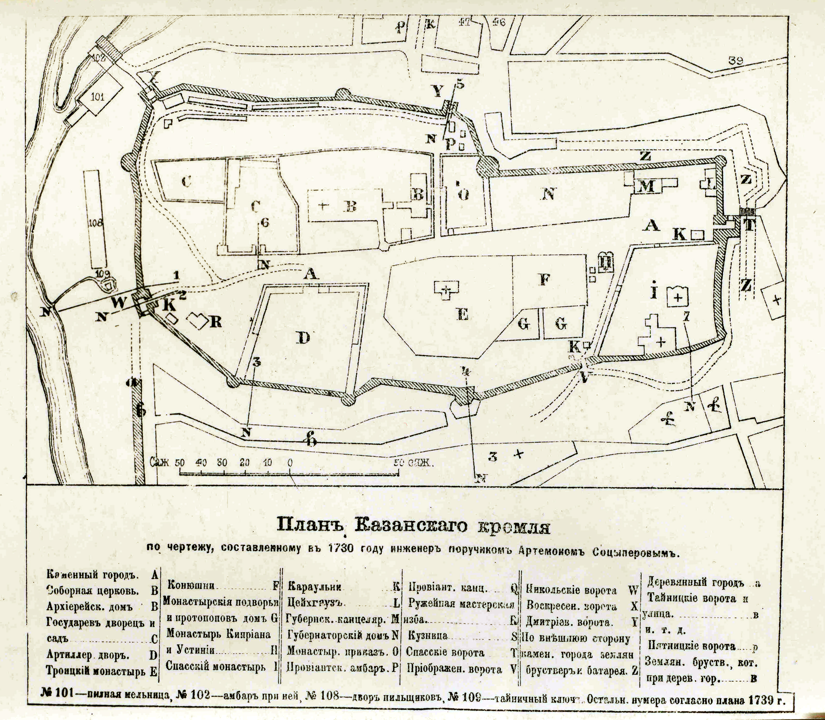 Plan of Kazan Kremlin, taken by military engineer lieutenant Anton Sociperov in 1730. Letter I – Spaso-Preobrazhensky (Saviour- Transfiguration) monastery Letter E – Troitsky (Trinity) monastery Letter H – Church pf snts Kiprian and Iustinia Letter B – Blagoveshensky (Annunciation) Cathedral